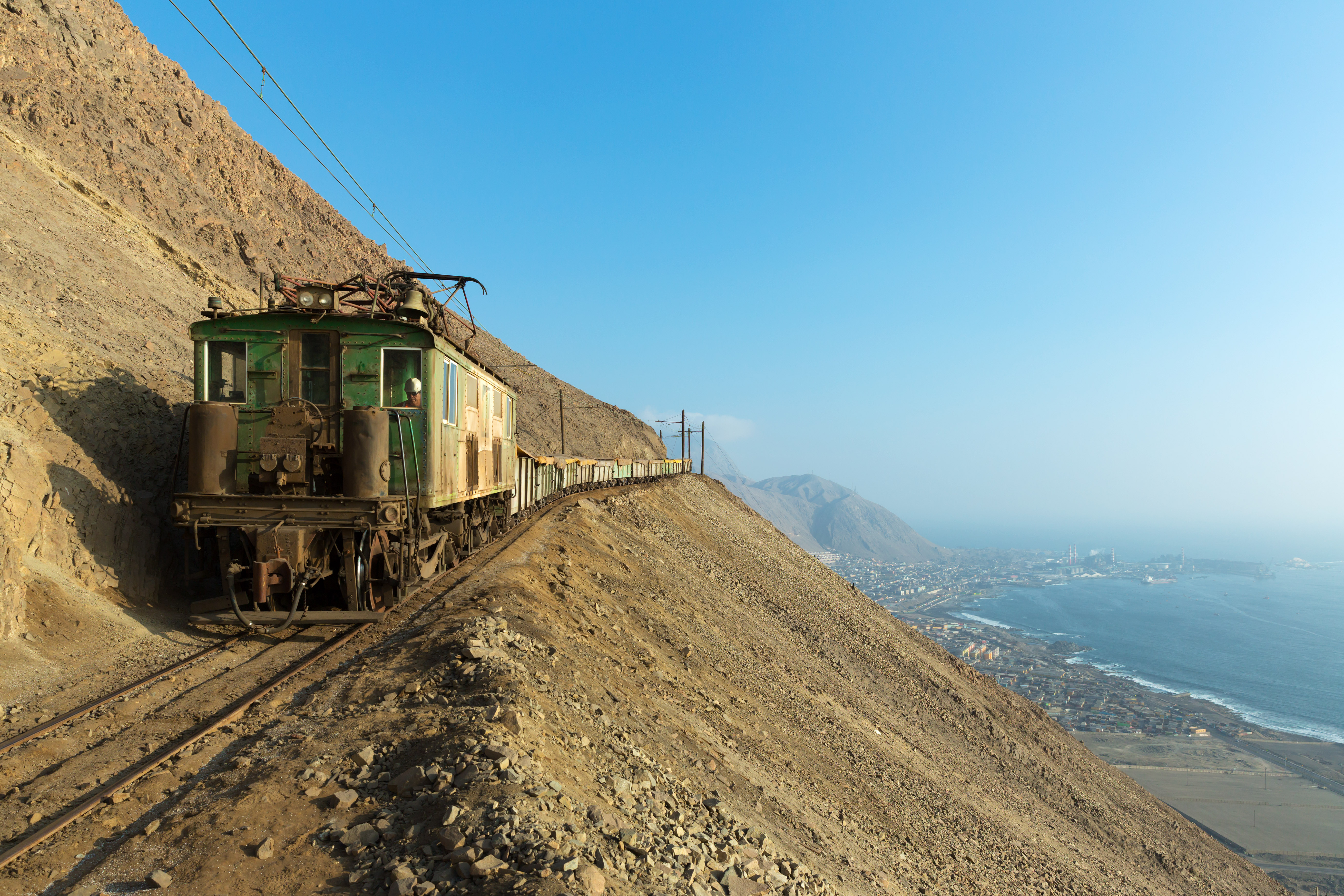 High above Tocopilla, Chile, one of SQMs Boxcabs coasts downhill to the Reverso switchback.